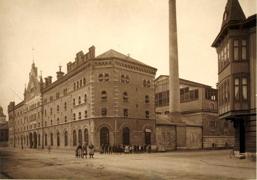 The Swedish brewery Kronan in Gothenburg. The brewery was closed in 1917.